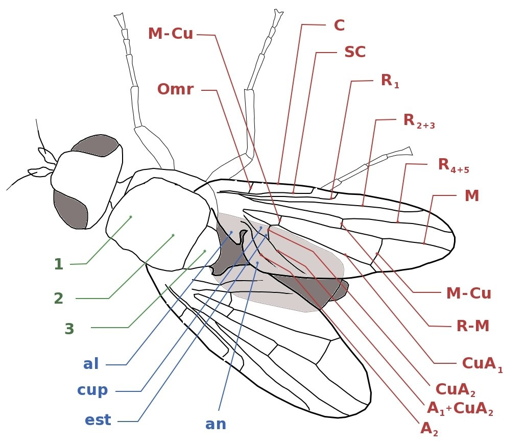 Morphology of a Diptera Tephritidae. A legend is available in the Italian Wikipedia at the article Tephritidae